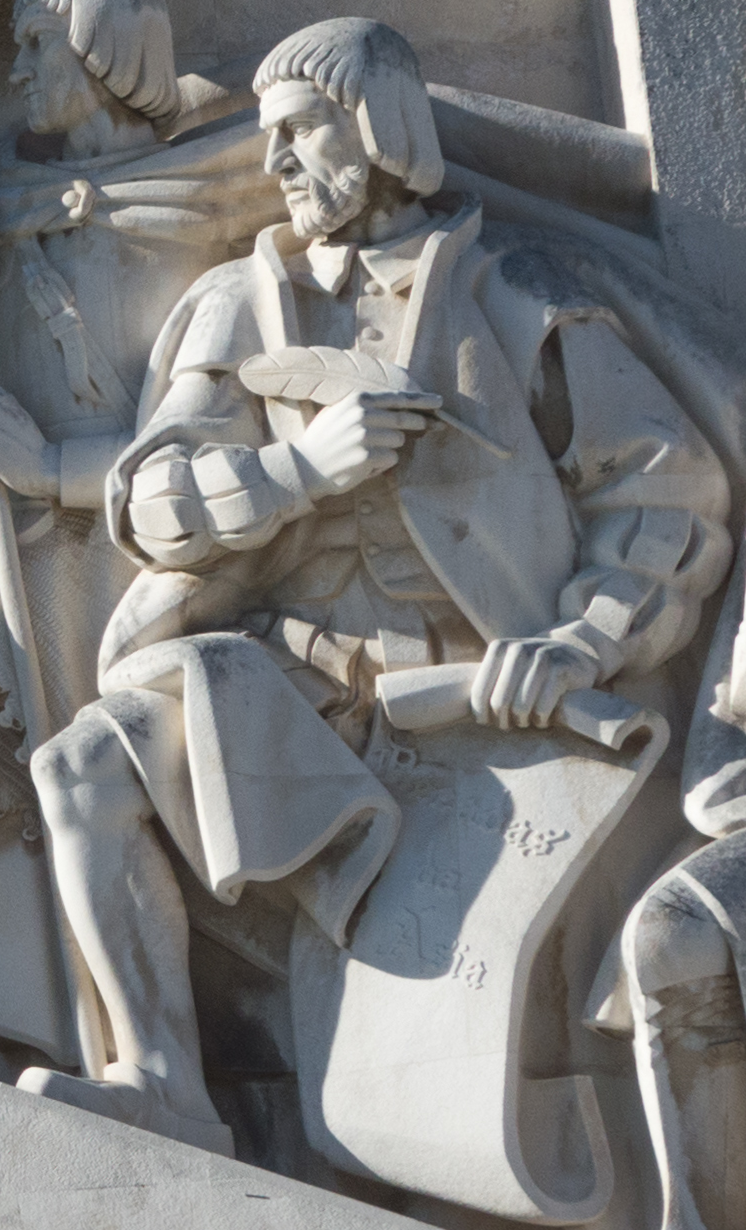 Effigy of João de Barros (c. 1496-1570), Portuguese historian and grammarian, in the Padrão dos Descobrimentos (Monument to the Discoveries), in Lisbon, Portugal.